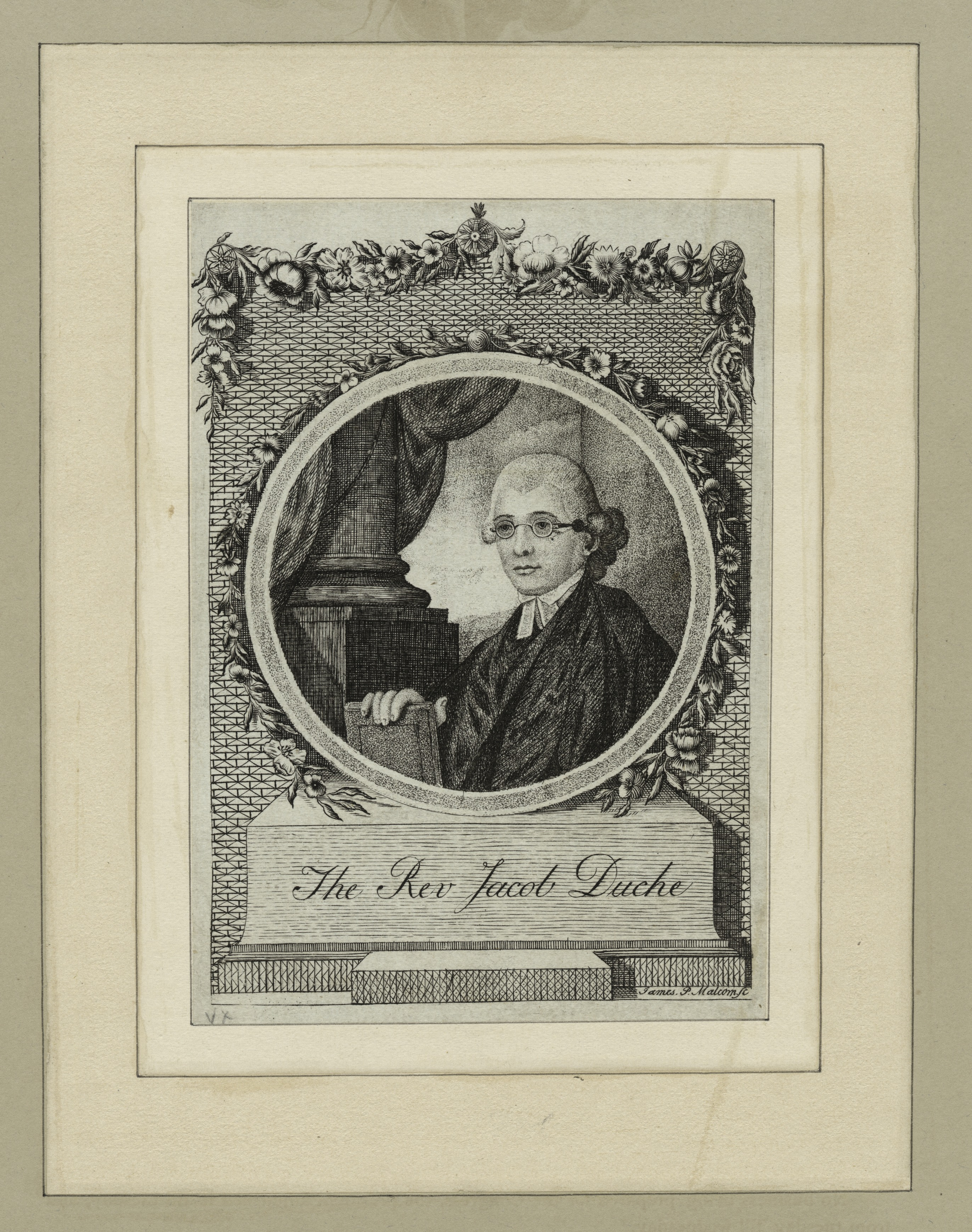 Printmakers include Asher B. Durand, Henry Bryan Hall, Albert Rosenthal and Max Rosenthal. Draughtsmen include David McNeely Stauffer. Title from Calendar of Emmet Collection. Includes some photomechanical reproductions. Citation/reference : EM293